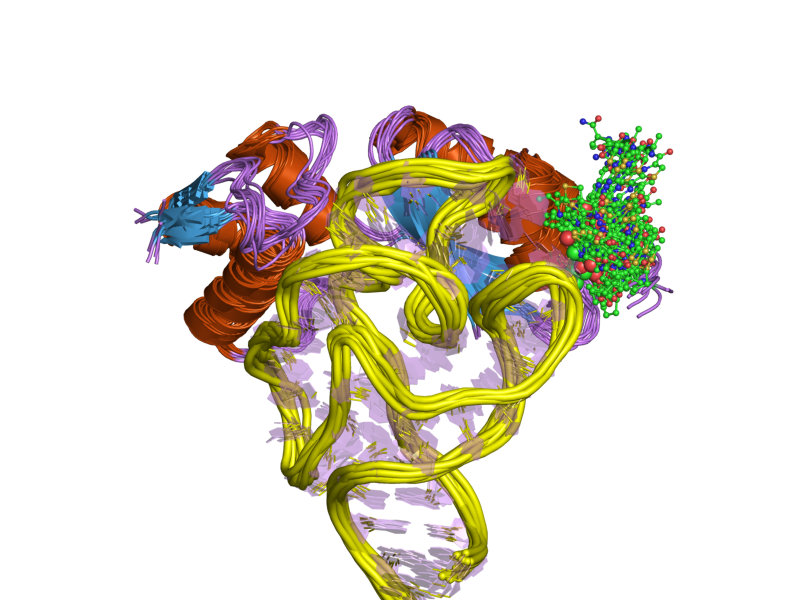 Cartoon representation of the molecular structure of protein registered with 2jq7 code.